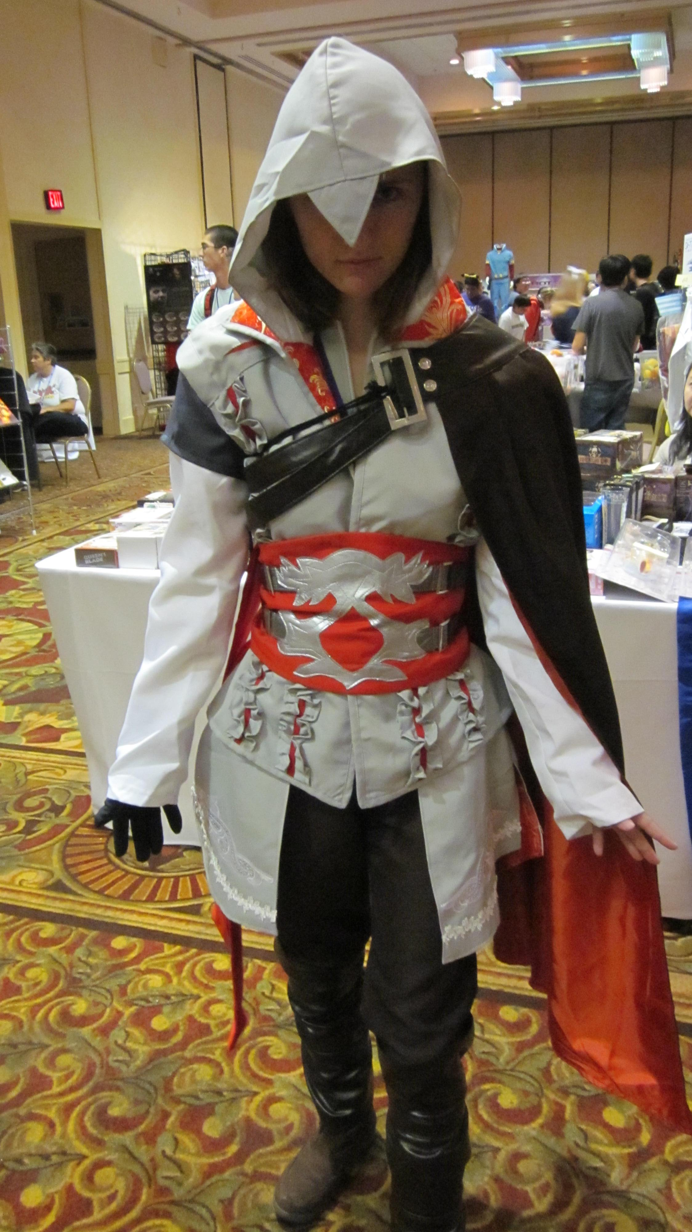 A cosplayer portraying Ezio from Assassin's Creed II at Sac-Anime in Sacramento, California.